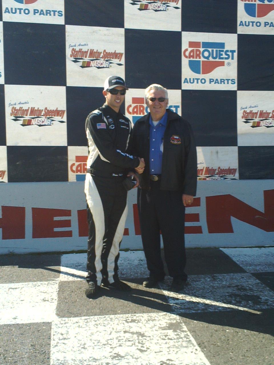 Brian Ickler and Bobby Allison shake hands during driver introductions at the 2008 Camping World Series season finale race at Stafford Motor Speedway. While leading, Ickler would be turned by Ted Christopher with about five laps to go, resulting in an eighteenth place finish.